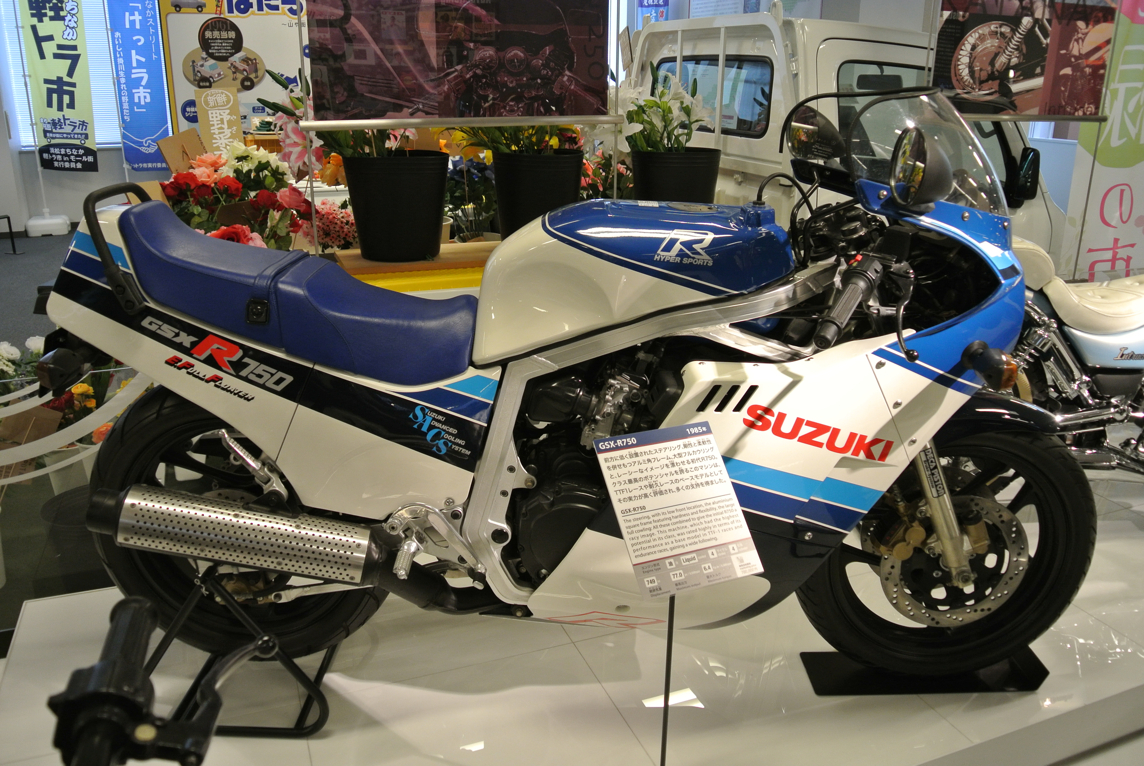 1985 Suzuki GSX-R750 in the Suzuki History Museum.